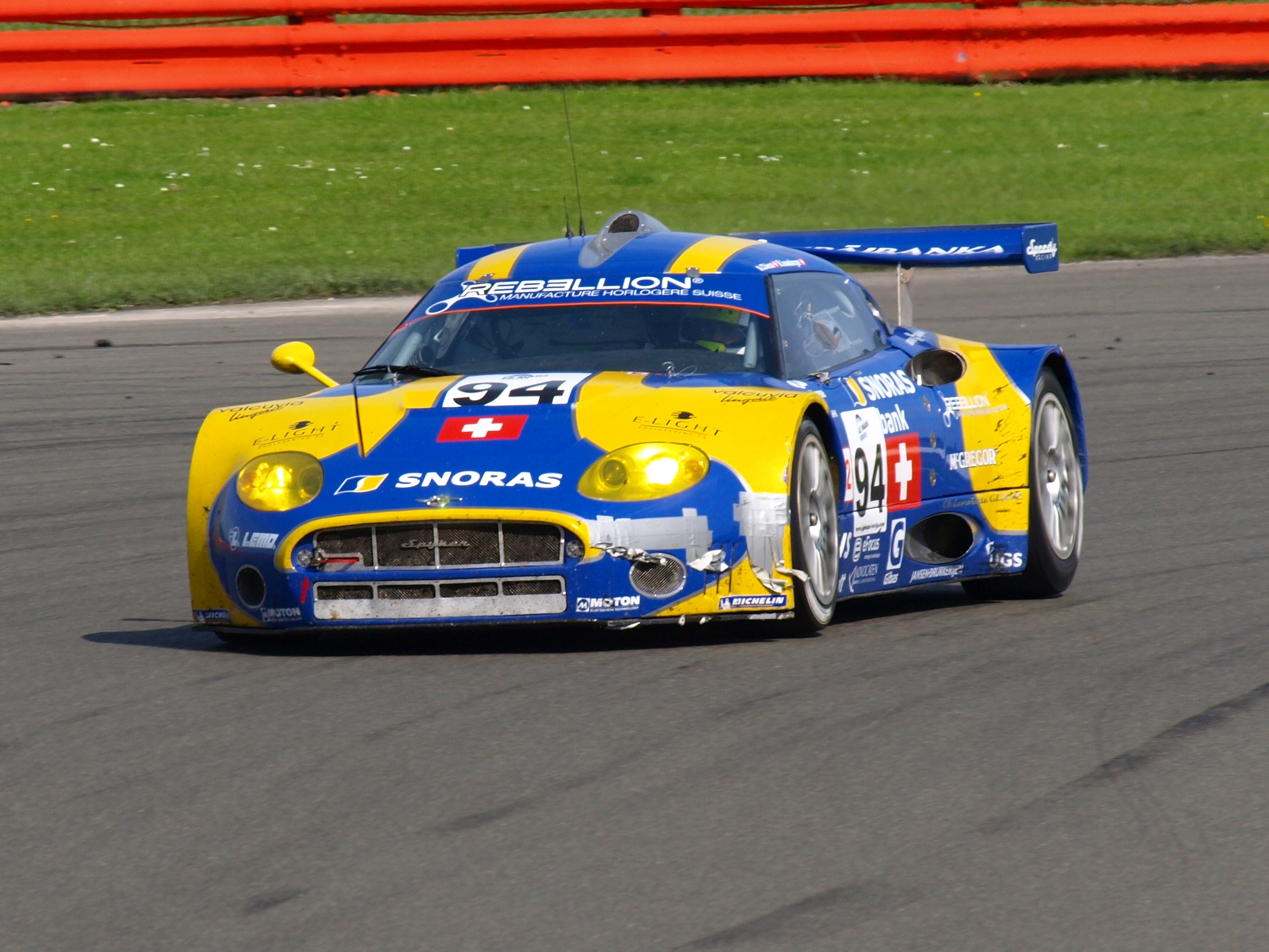 Speedy Racing Team's Spyker C8 Laviolette GT2-R at the 2008 1000km of Silverstone.